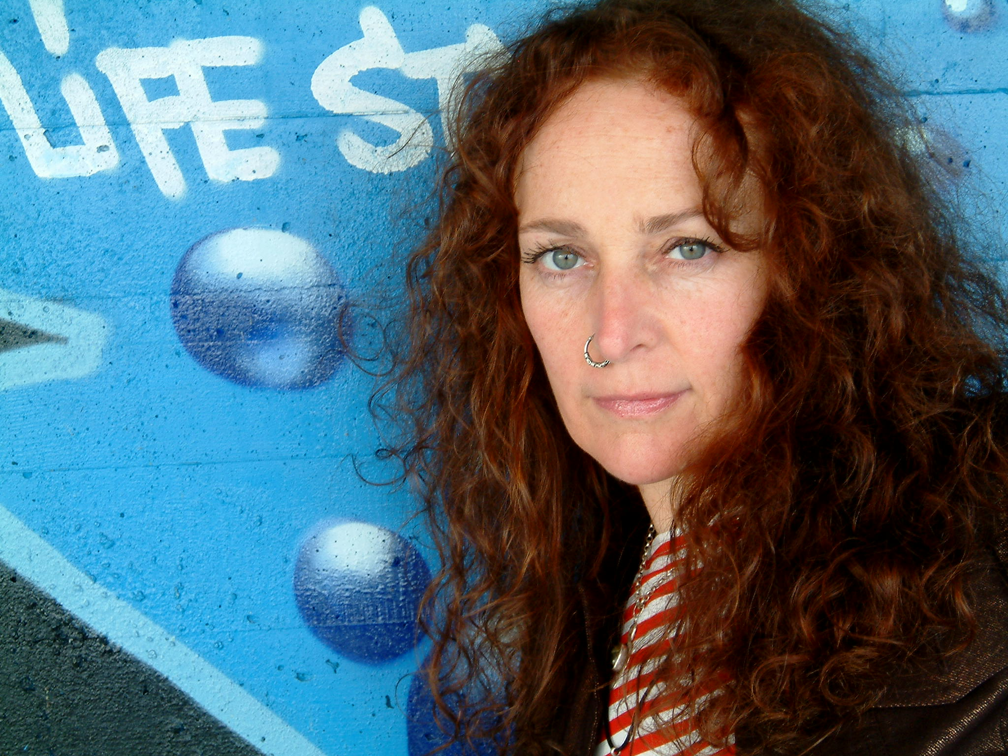 Portrait of Louise Wallis also known as Luminous - Singer, DJ. writer, vegan, founder of World Vegan Day and animal advocate